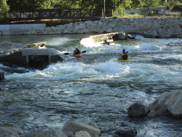 Artificial white water on the Boise Greenbelt near NW 1.9 and by Quinn's Pond, in Garden City, Idaho.